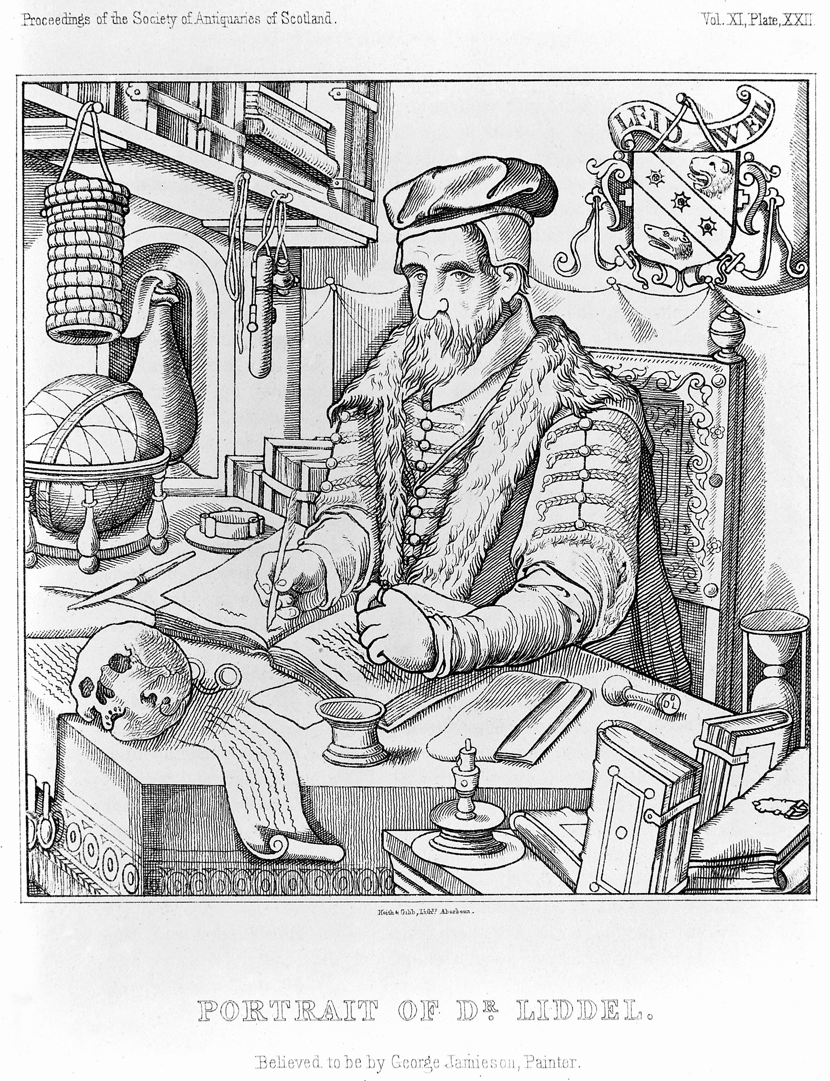 Rubbing of brass from Duncan Liddel's grave, West Kirk of St. Nicholas, Aberdeen, Scotland. General Collections Keywords: George Jamieson; Duncan Liddel